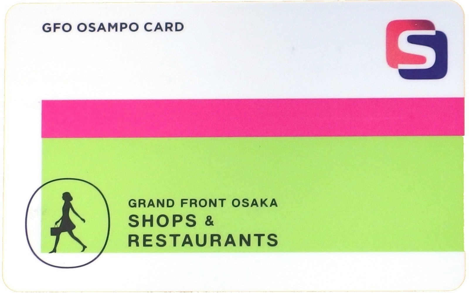 S-point cards available at Hankyu Hanshin Holdings.